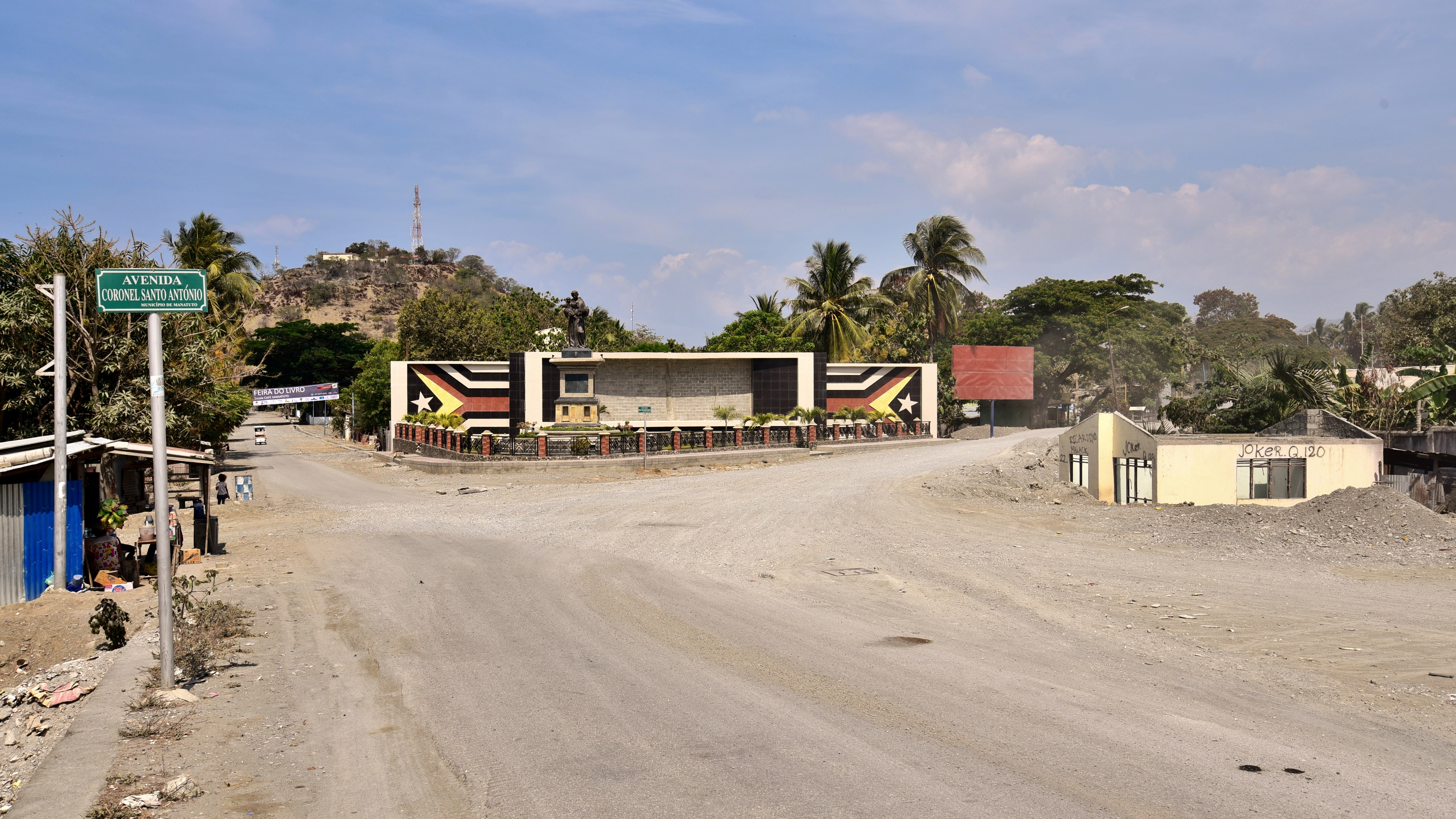 View of the entrada (entrance) to Manatuto, East Timor, showing (L-R) Avenida Coronel Santo António, Gruta Ina Maria Saututun (at the top of the hill) and Avenida Rosa Muki Bonaparte (which is the local name of National Highway 1)